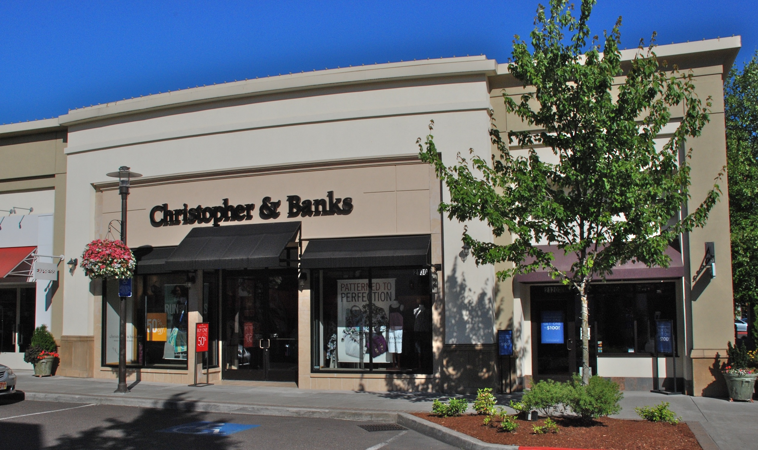 A Christopher & Banks store in the "Streets of Tanasbourne" mall, in Hillsboro, Oregon.